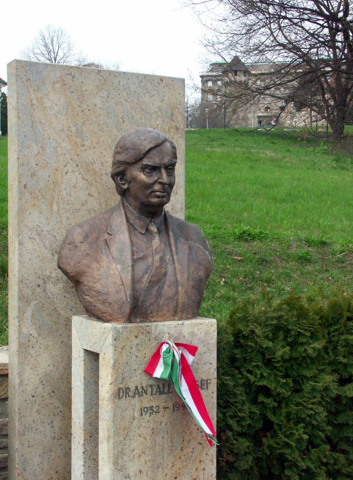 Bust of Prime Minister József Antall in Tabán, near the Semmelweis Museum of Medical History. Created by sculptor Gábor Veres in 2003.